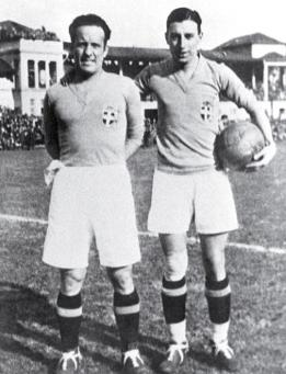 Mario Magnozzi and Raimundo Orsi, two players who were world champions defending Italy